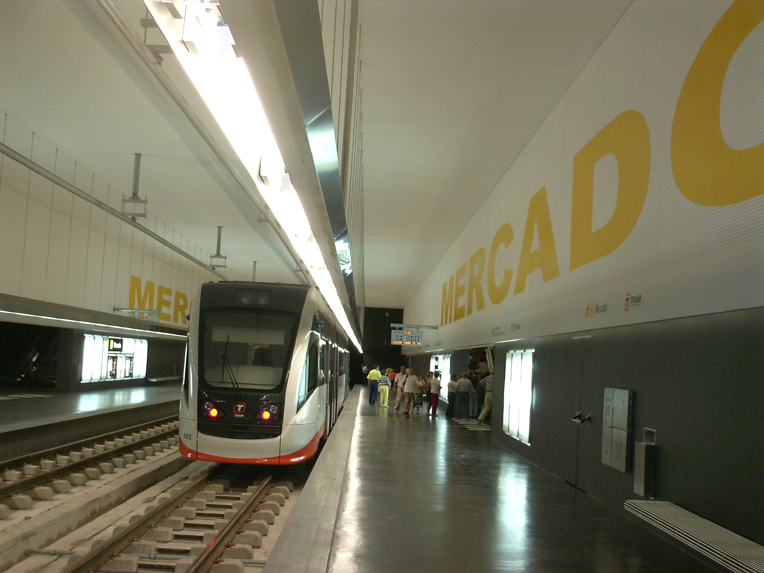 Tracks of the metropolitan tramway of alicante in the Mercado stop